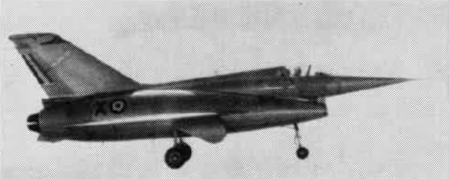 The French Nord 1500-01 Griffon I in flight. The Griffon was an experimental ramjet-powered fighter aircraft designed and built by French state-owned aircraft manufacturer Nord Aviation. It was part of a series of competing programs to fill a French air force specification for a Mach 2 fighter.